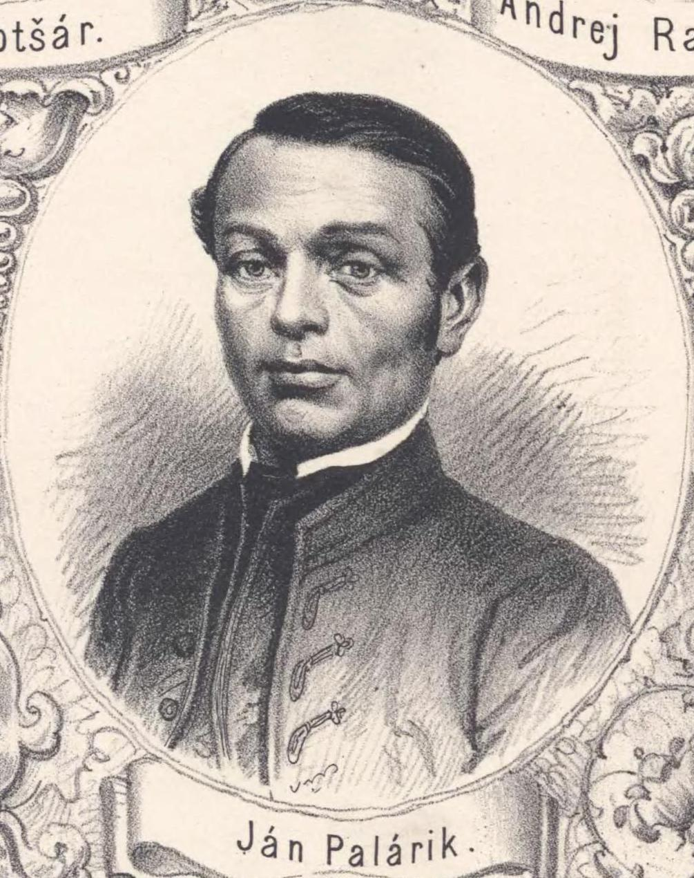 Portrait of Ján Palárik (1822 - 1870), Slovak playwright. Picture cropped from a gallery of famous Slovaks.